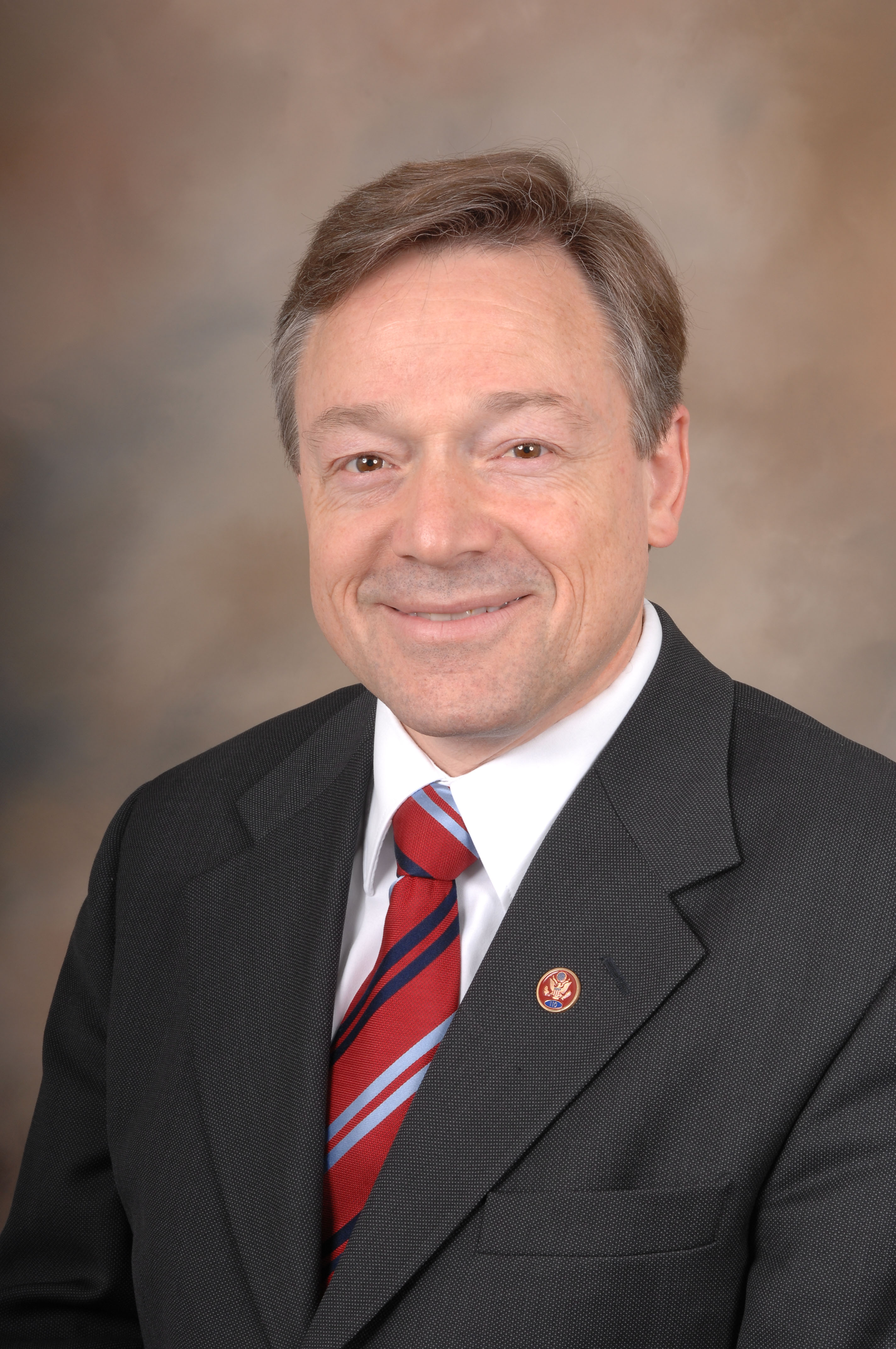 Steve Kagen, member of the United States House of Representatives